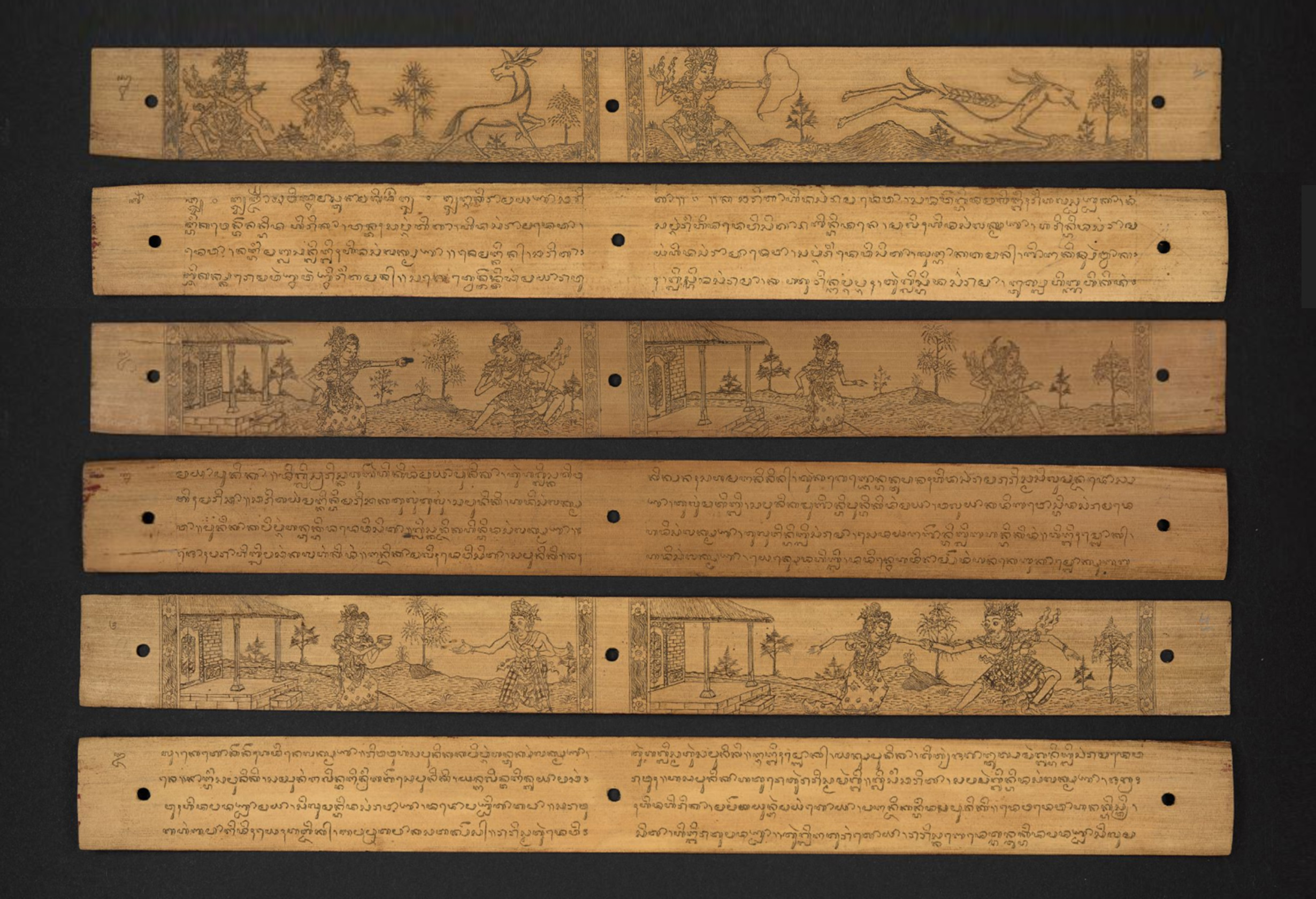 kakawin ramayana on balinese lontar written in 1975